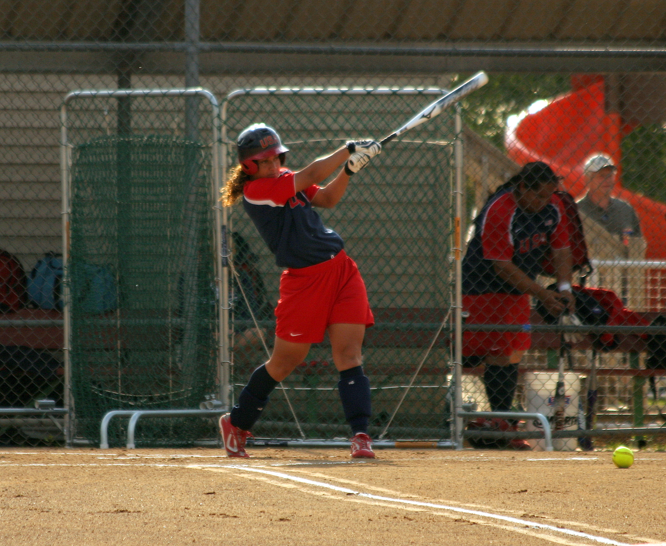 Tairia Flowers plays several positions and is an Awesome batter. In World Cup, Pan Am and Canadian Cup competition she went 19 for 35. That's a .543 average. Eat your heart out Ted Williams and Babe Ruth! She is also a good sport. She clowned around with all the young adoring girls while signing autographs. I got two.